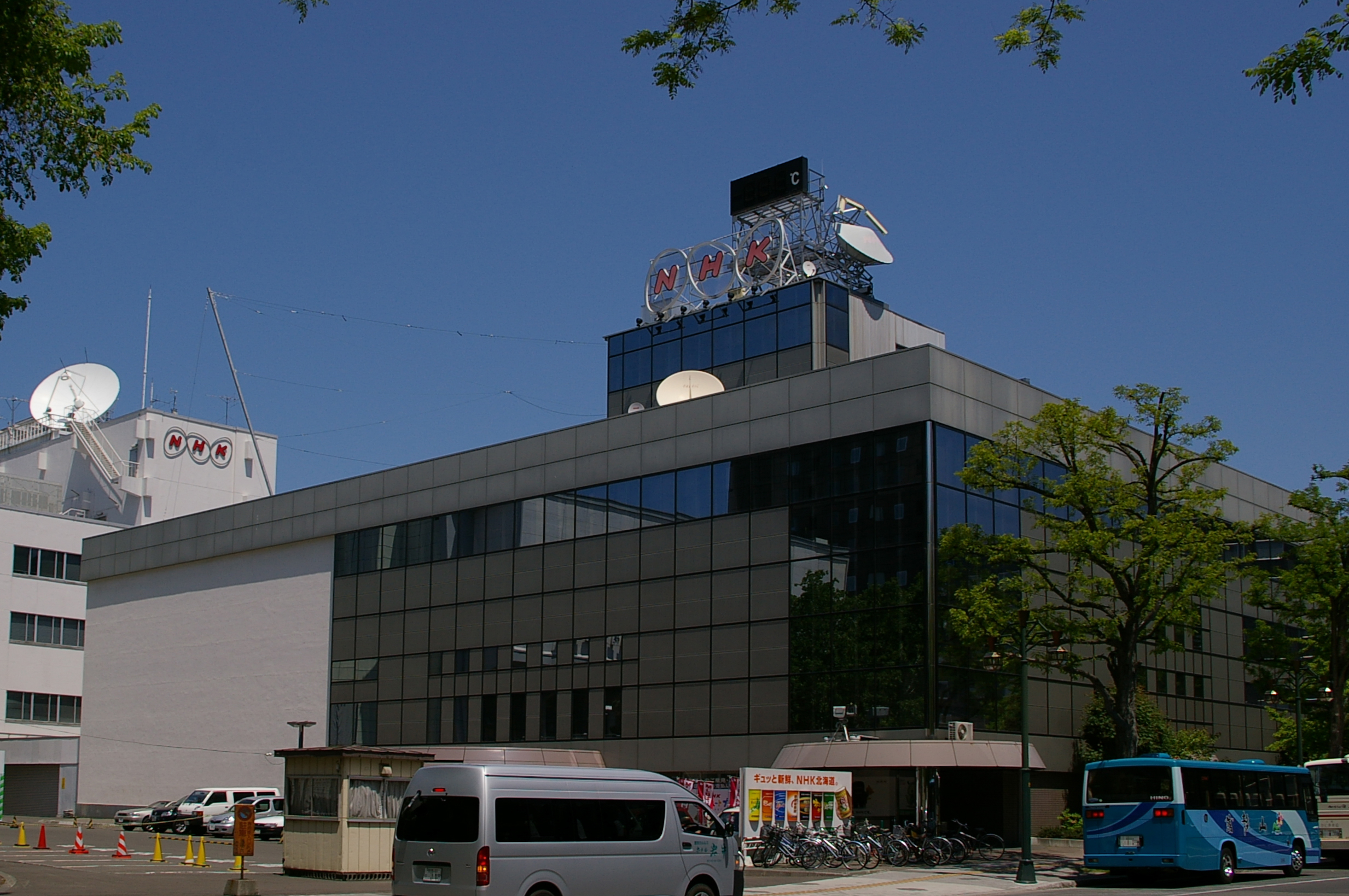 NHK Sapporo Broadcasting Station (main building) in Chuo-ku, Sapporo City, Hokkaido, Japan